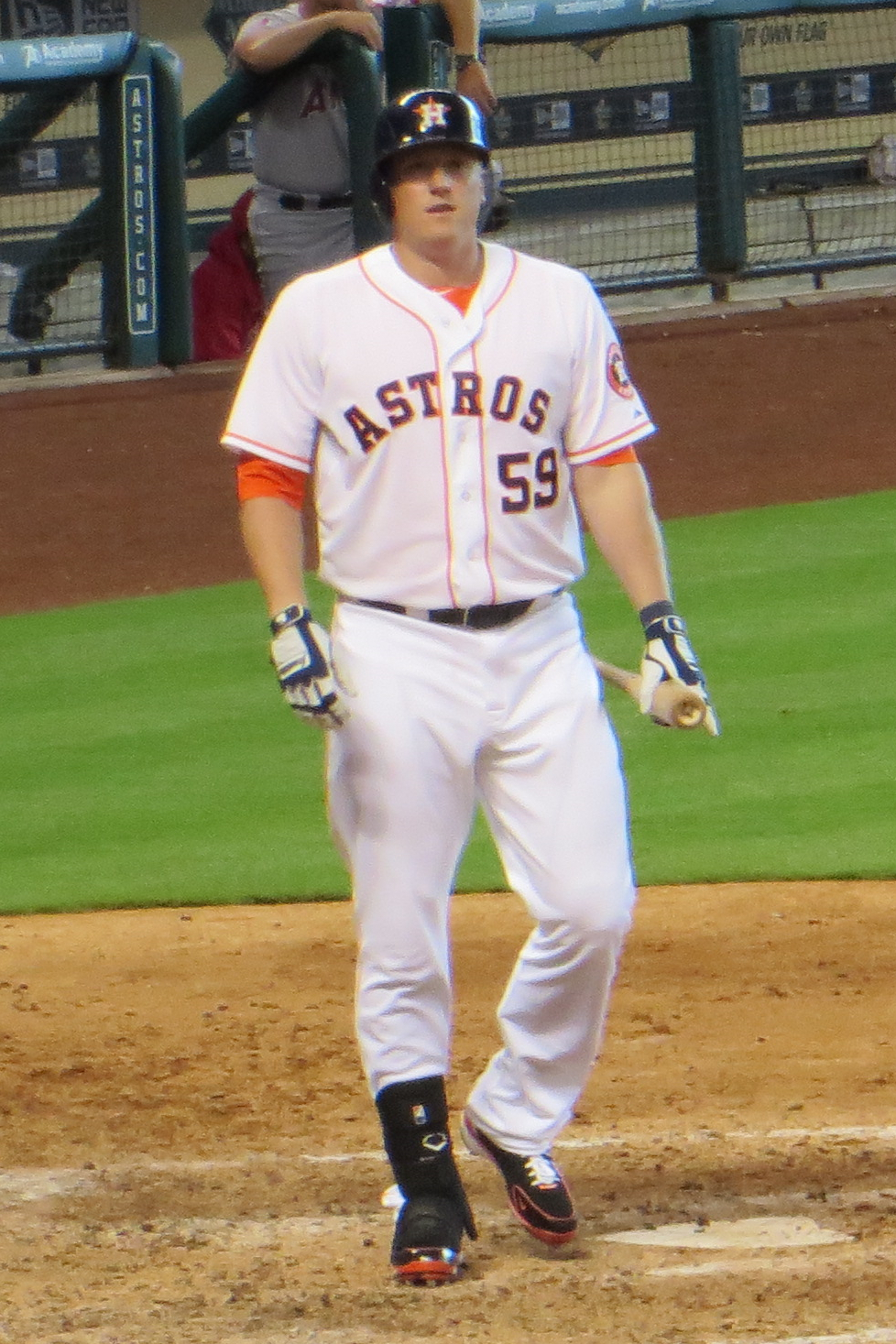 Houston Astros outfielder Marc Krauss vs. the Los Angeles Angels of Anaheim on June 29, 2013.